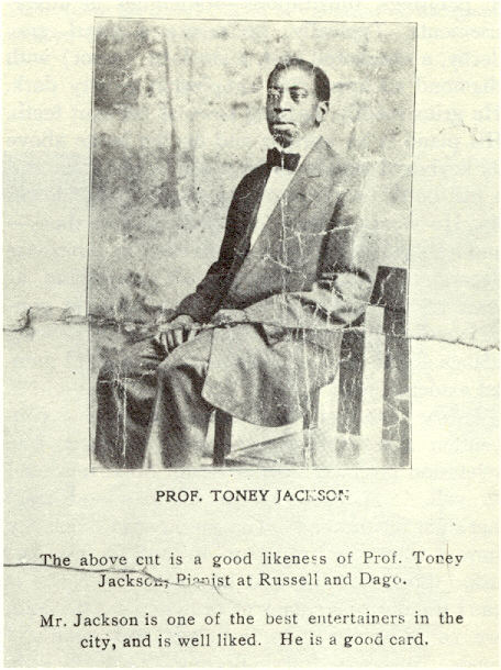 Advertising flyer for US musician, composer, and entertainer Tony Jackson